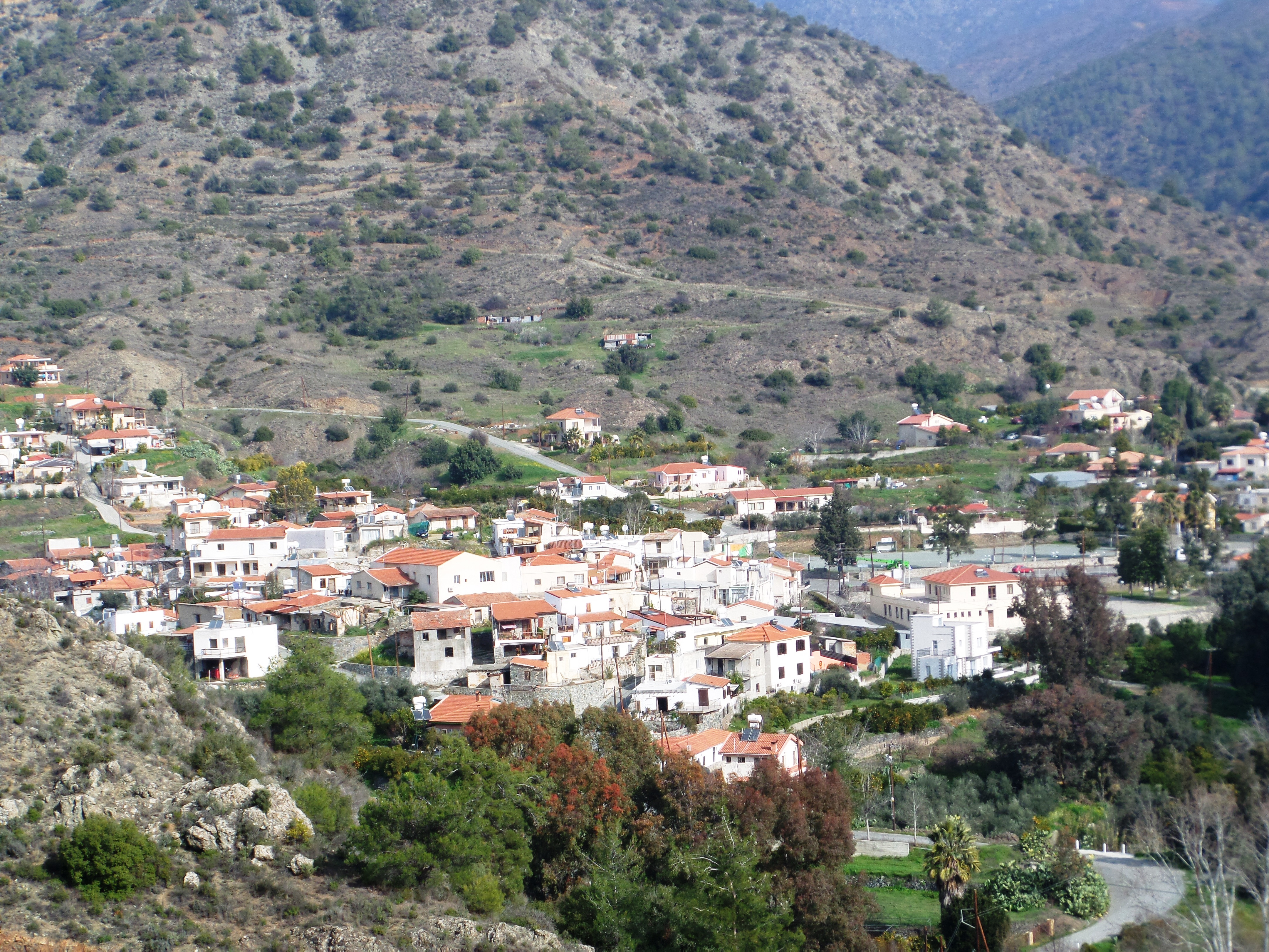 View of Arakapas.